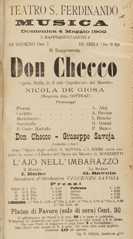 Poster advertising a performance of Nicola De Giosa's opera Don Checco at the Teatro San Ferdinando, Naples on 4 May 1902